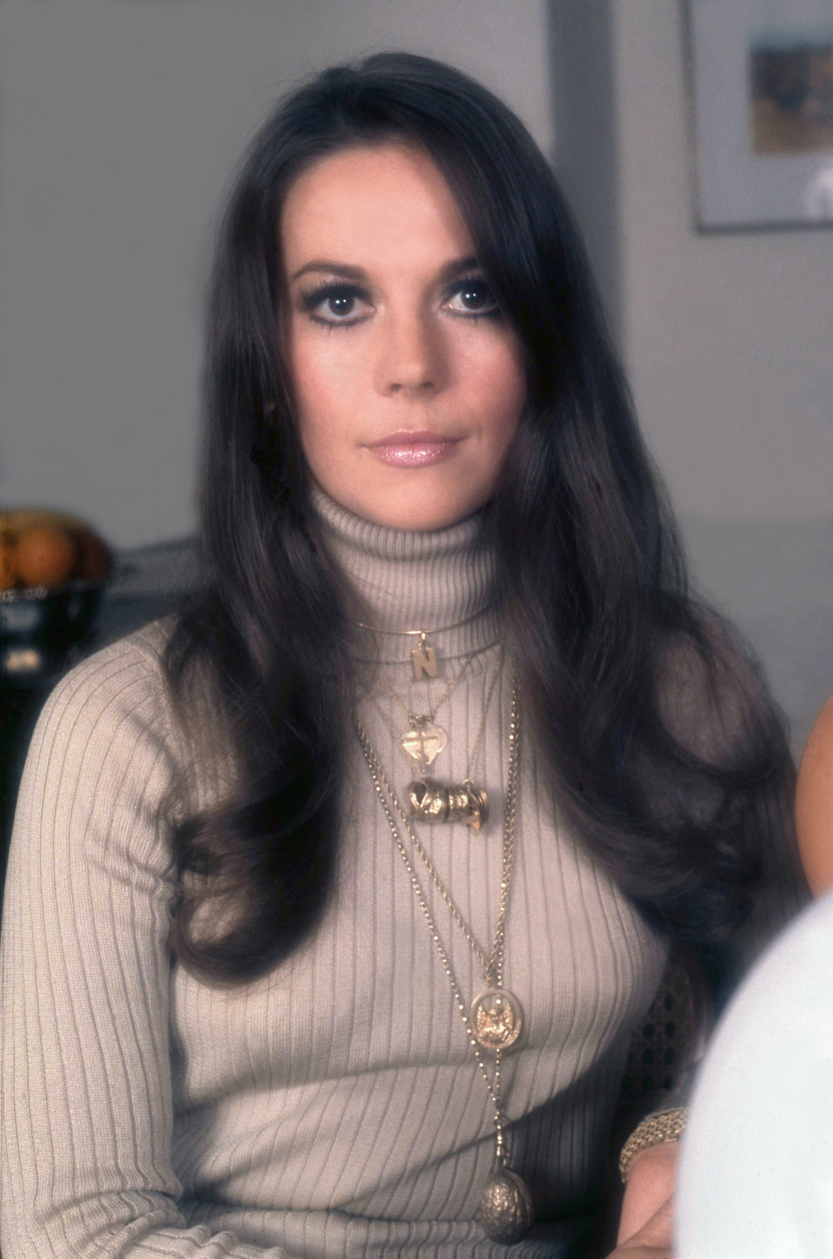 Natalie Wood taken in her London Home in Belgravia.